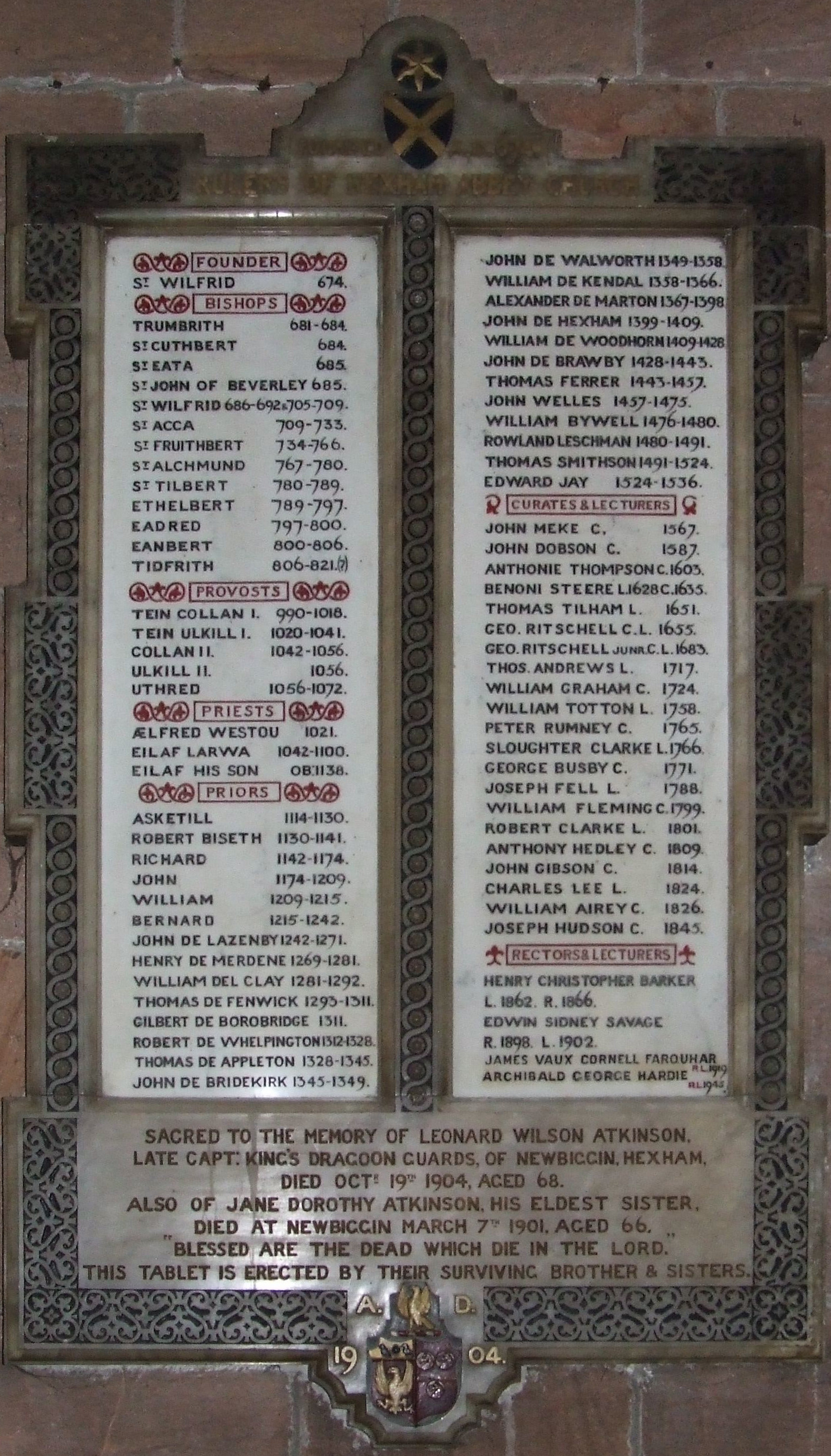 Hexham Abbey Church memorial tablet to its rulers from 674A.D. to 1945. The legend reads: "Sacred to the memory of Leonard Wilson Atkinson, Late Capt: King's Dragoon Guards, of Newbiggin, Hexham, Died Oct 19th 1904, Aged 68. Also of Jane Dorothy Atkinson, his Eldest Sister, Died at Newbiggin, March 7th 1901, Aged 66. "Blessed are the Dead which Die in the Lord." This Tablet is Erected by their Surviving Brother and Sisters."